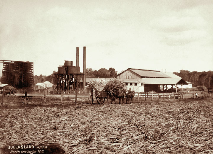 North Isis Sugar Mill with cart load of cane in foreground.